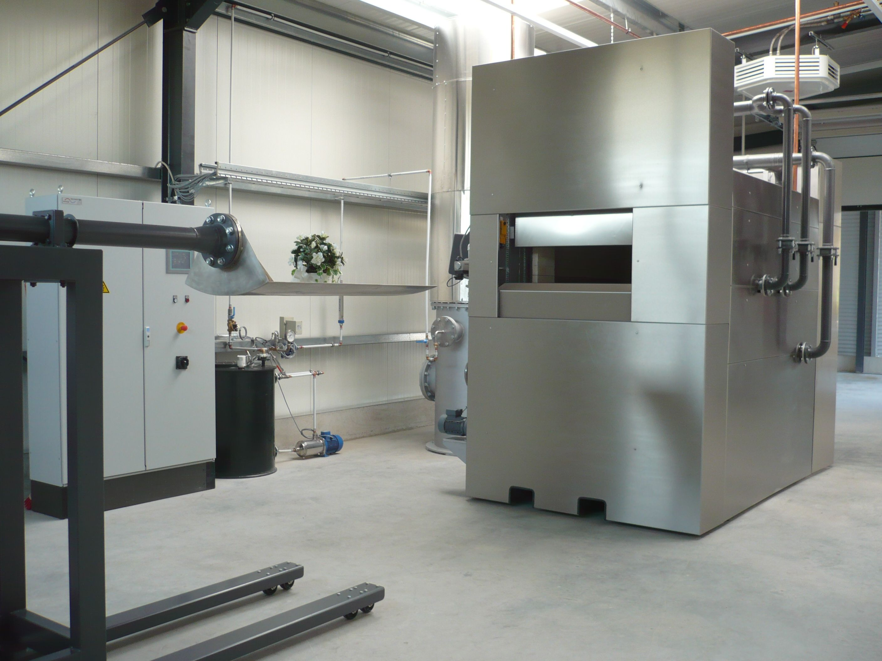 Example for an animal incinerator, designed by UTV GmbH Memmingen, Germany